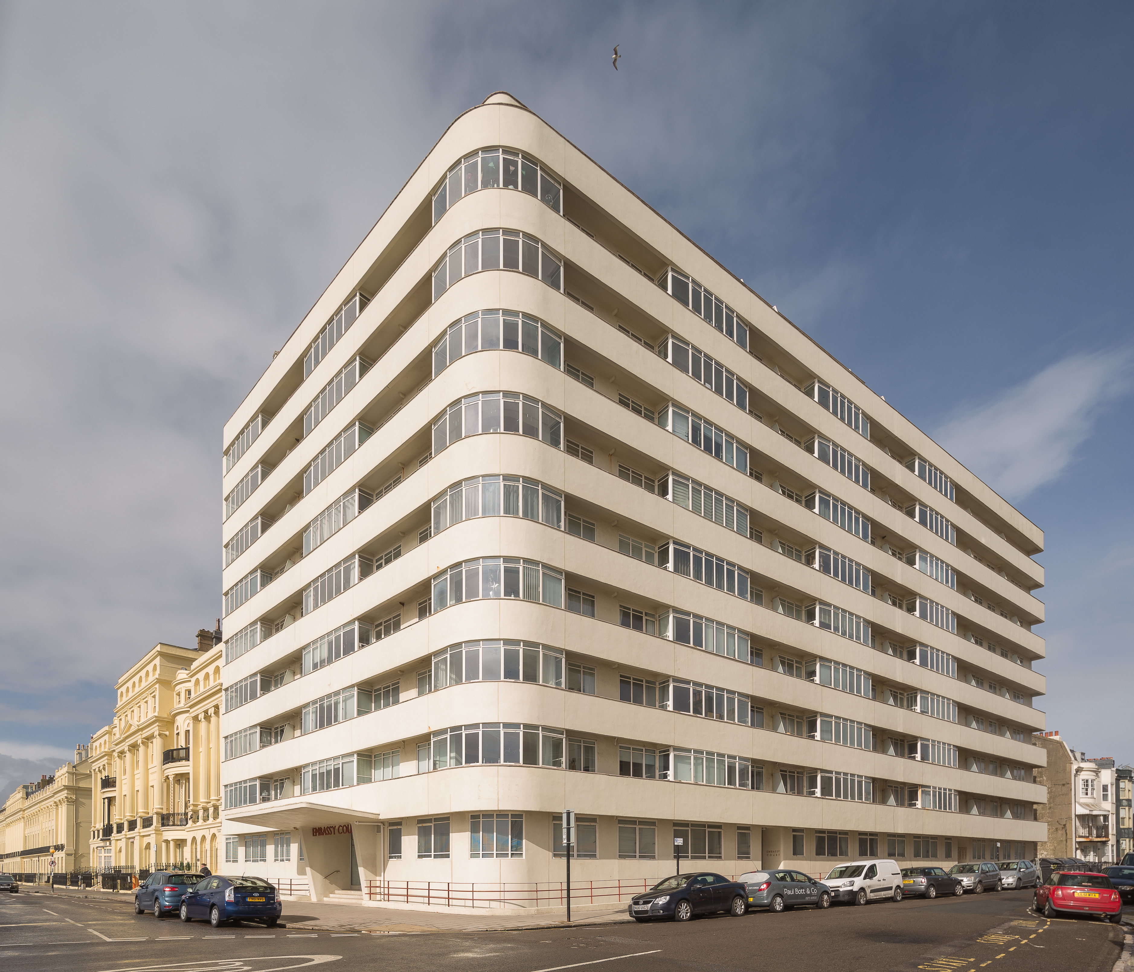 Embassy Court in Brighton, England. Built 1935. Architect Wells Coates.